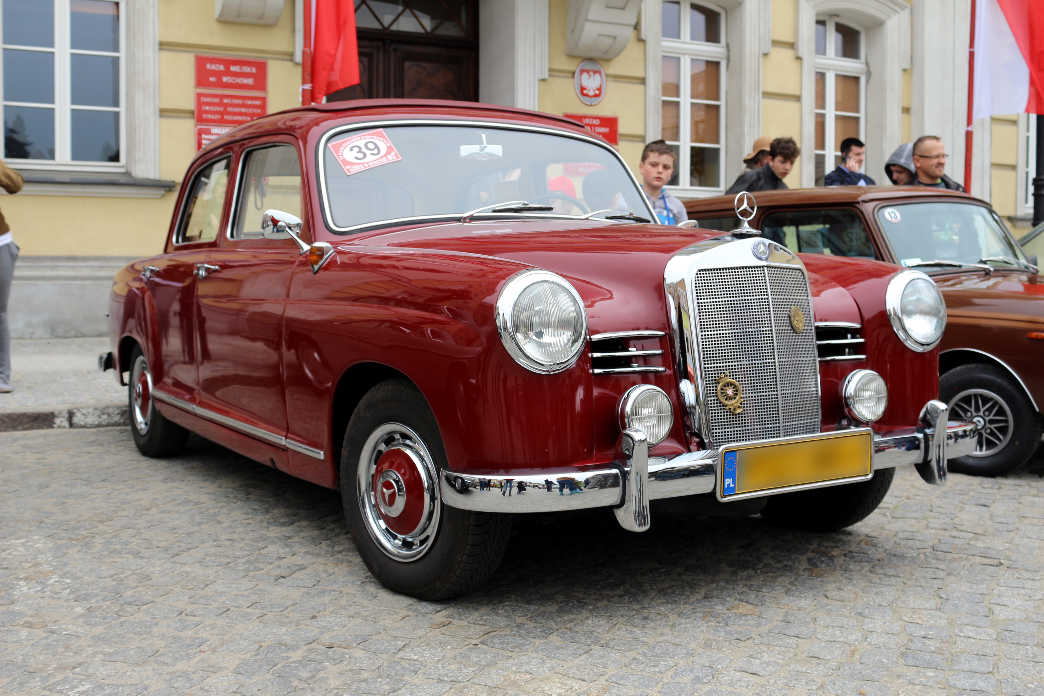 Mercedes Benz W120 180D 1954